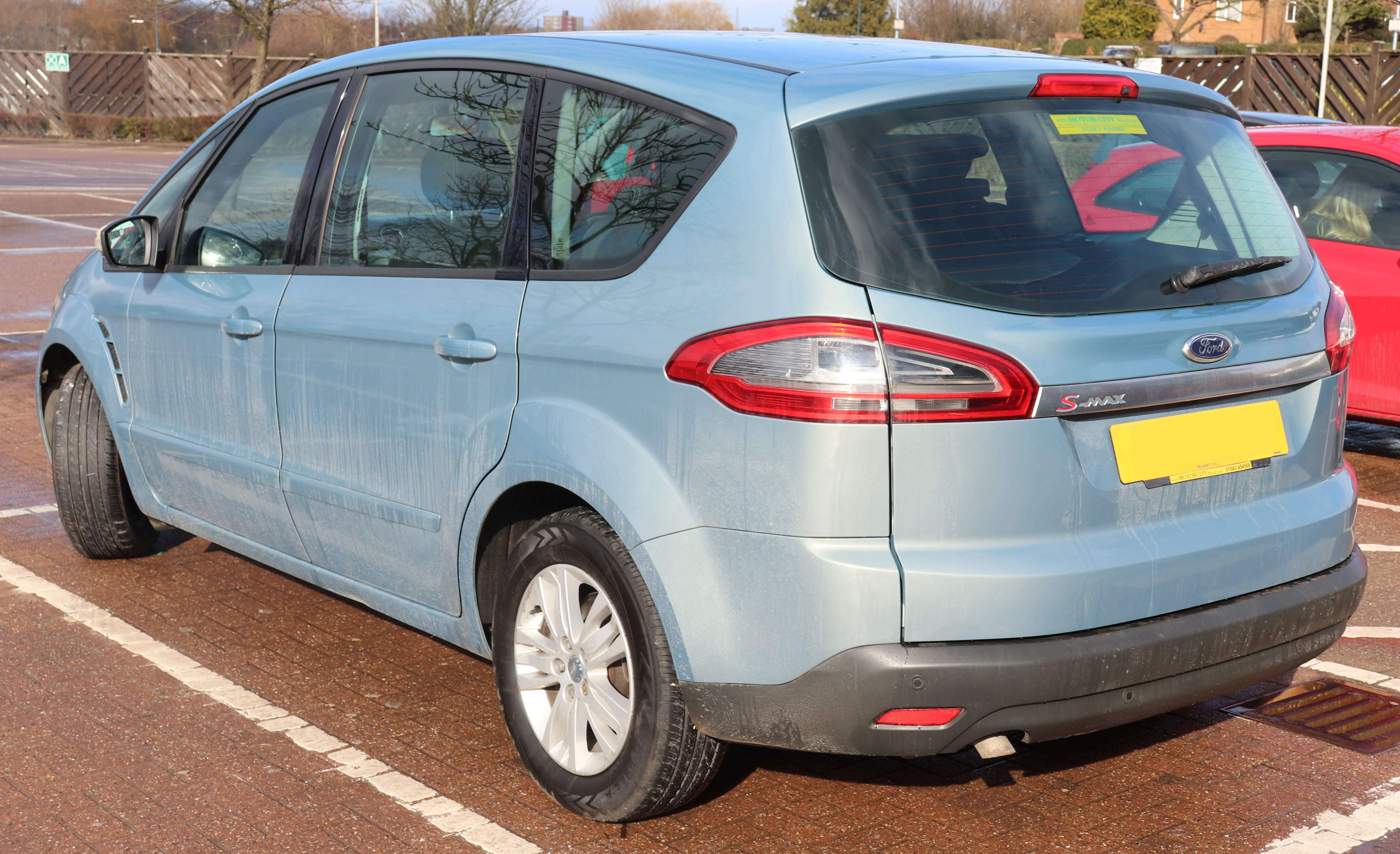 2010 Ford S-Max Zetec TDCi 2.0 Rear Taken in Leamington Spa